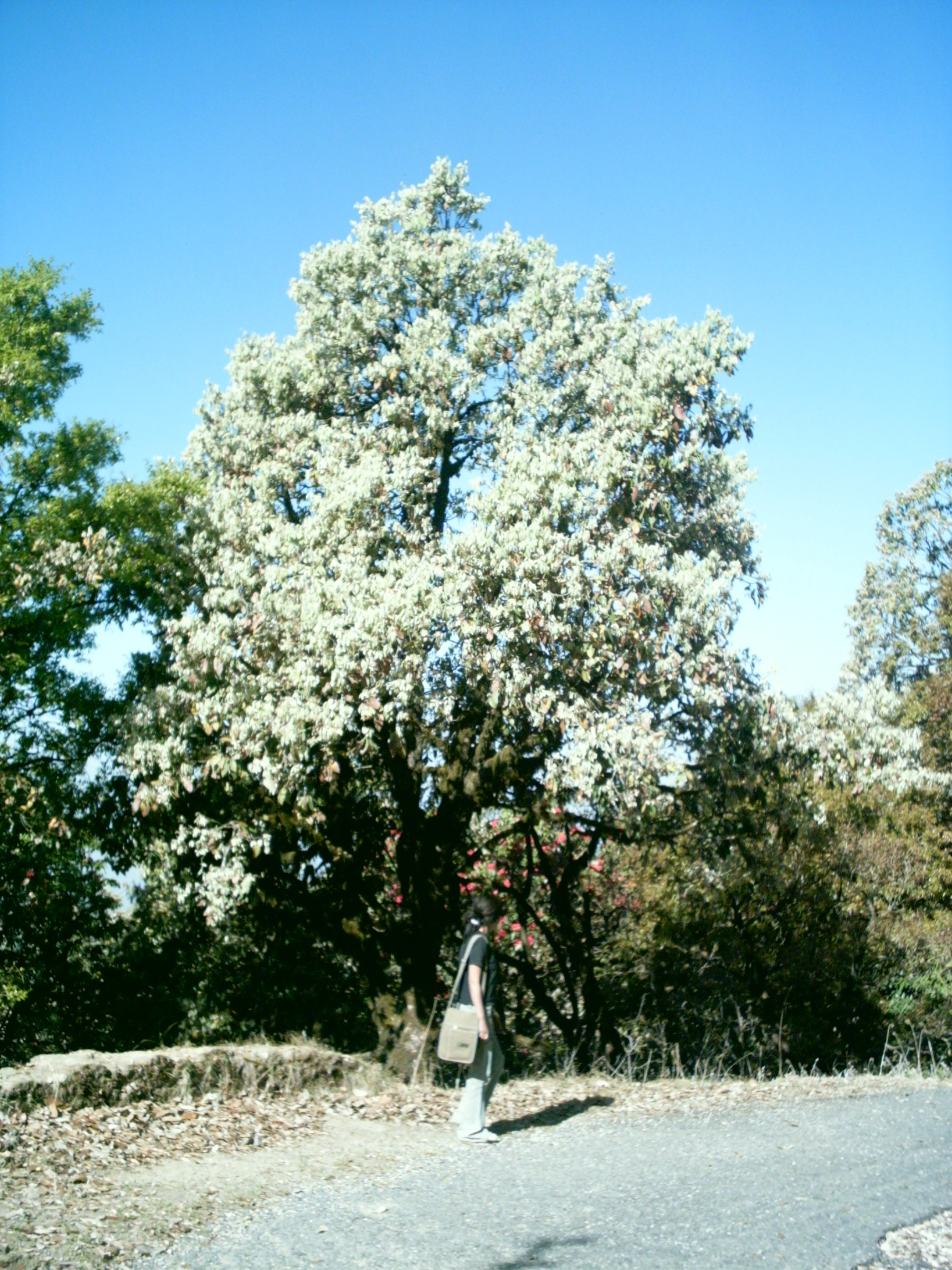 Binsar Wildlife Sanctuary flora